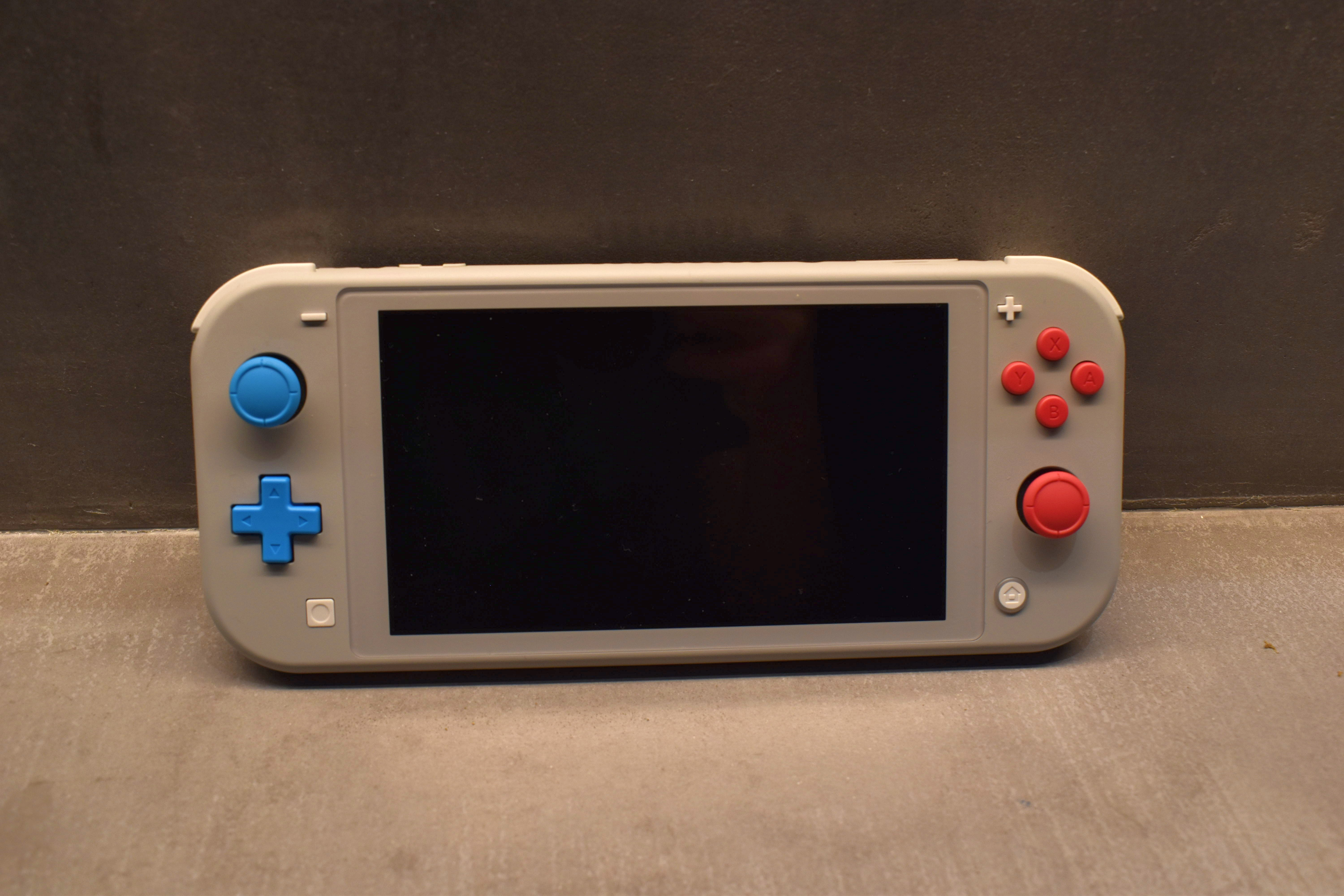 Nintendo Switch Lite Pokémon Zacian and Zamazenta edition.